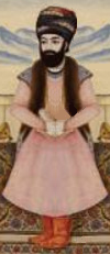 Sayed Murad Khan Zand of the Zand dynasty